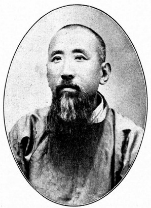 Gao Zengrong